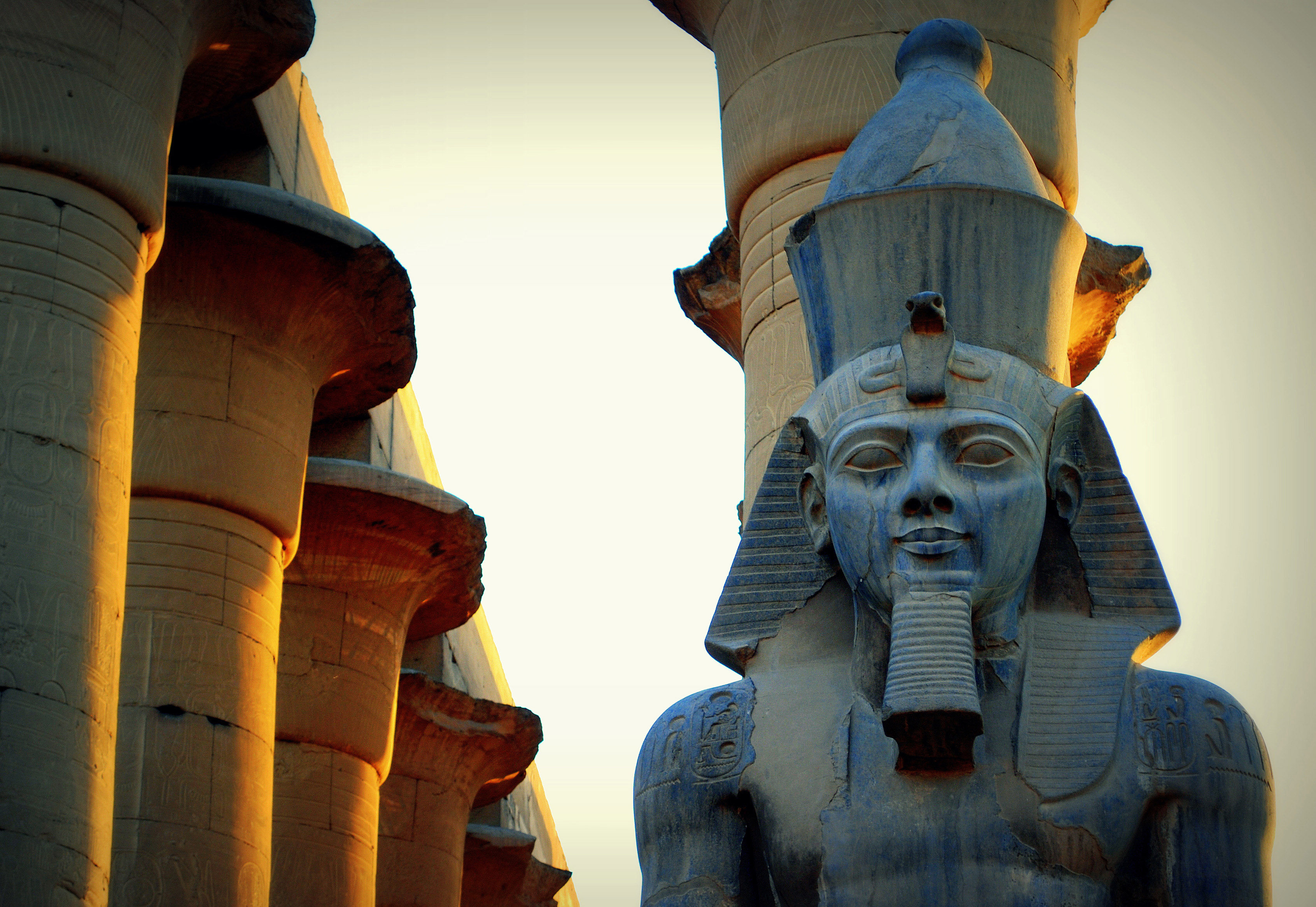 Statues of Ramses II in Luxor Temple